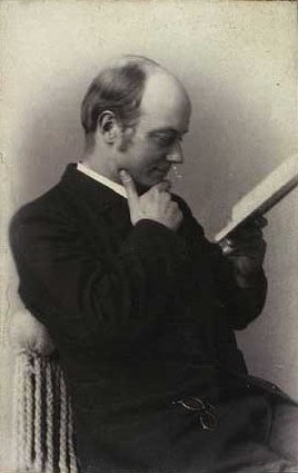 Holger Christian Begtrup (1859-1937), Danish theologian and educator